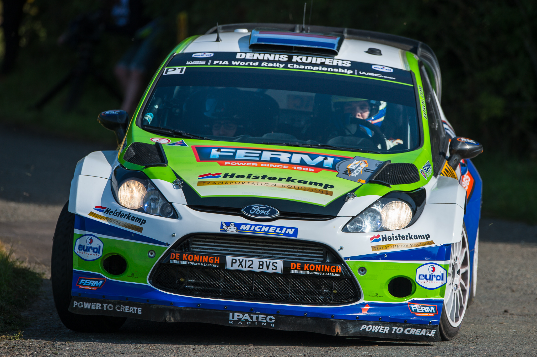 ADAC Rallye Deutschland 2014,Dennis Kuipers,FIA,FIA World Rally Championship,Ford Fiesta RS WRC,M-Sport WRT,M-Sport World Rally Team,Motorsport,Rally,Rallye,Robin Buysmans,Shakedown,WRC